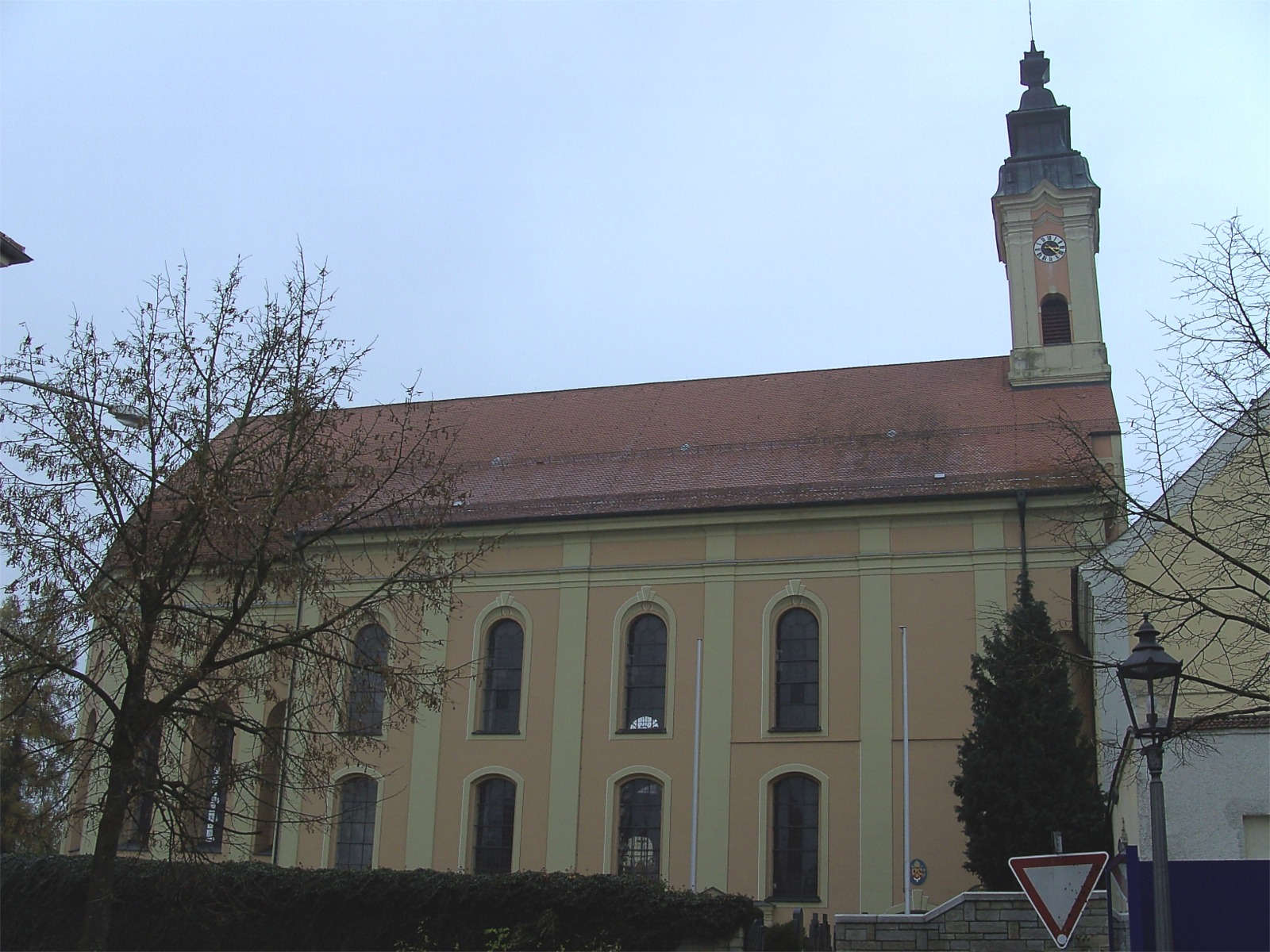 Basilica of Asam in Altenmarkt (Osterhofen).